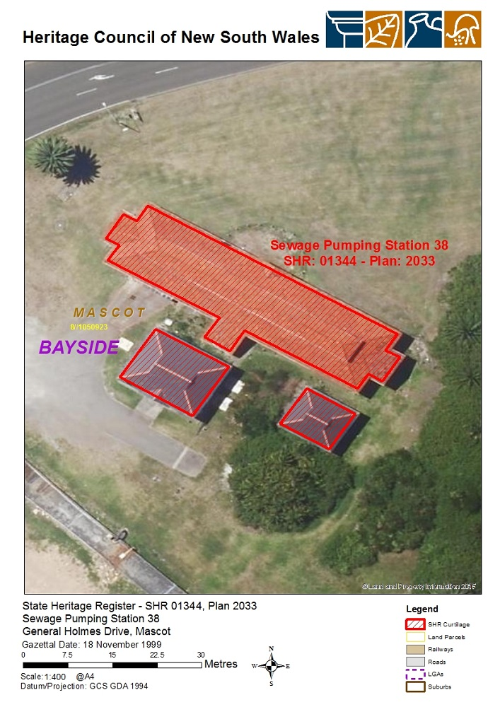 Sewage Pumping Station 38: SHR Plan 2033